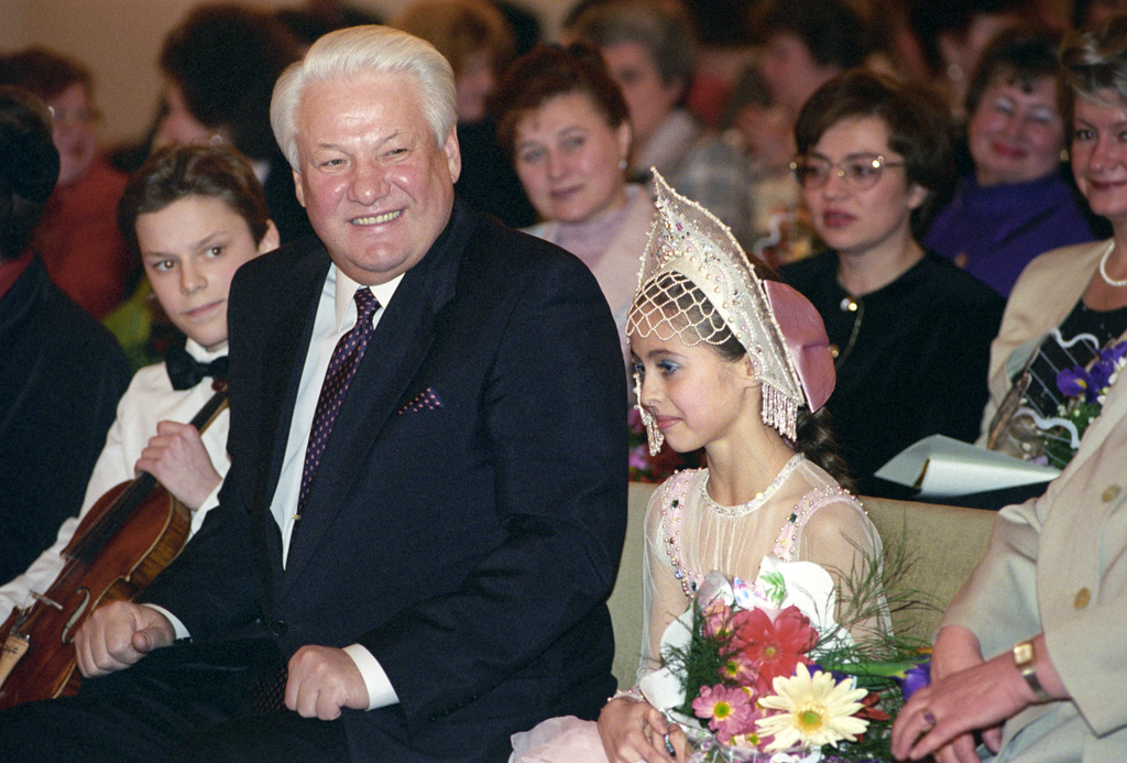 “Russian president Boris Yeltsin attends festive event on the occasion of International Women's Day, March 8”. Russian president Boris Yeltsin attending a festive event on the occasion of International Women's Day, March 8. The Kremlin.